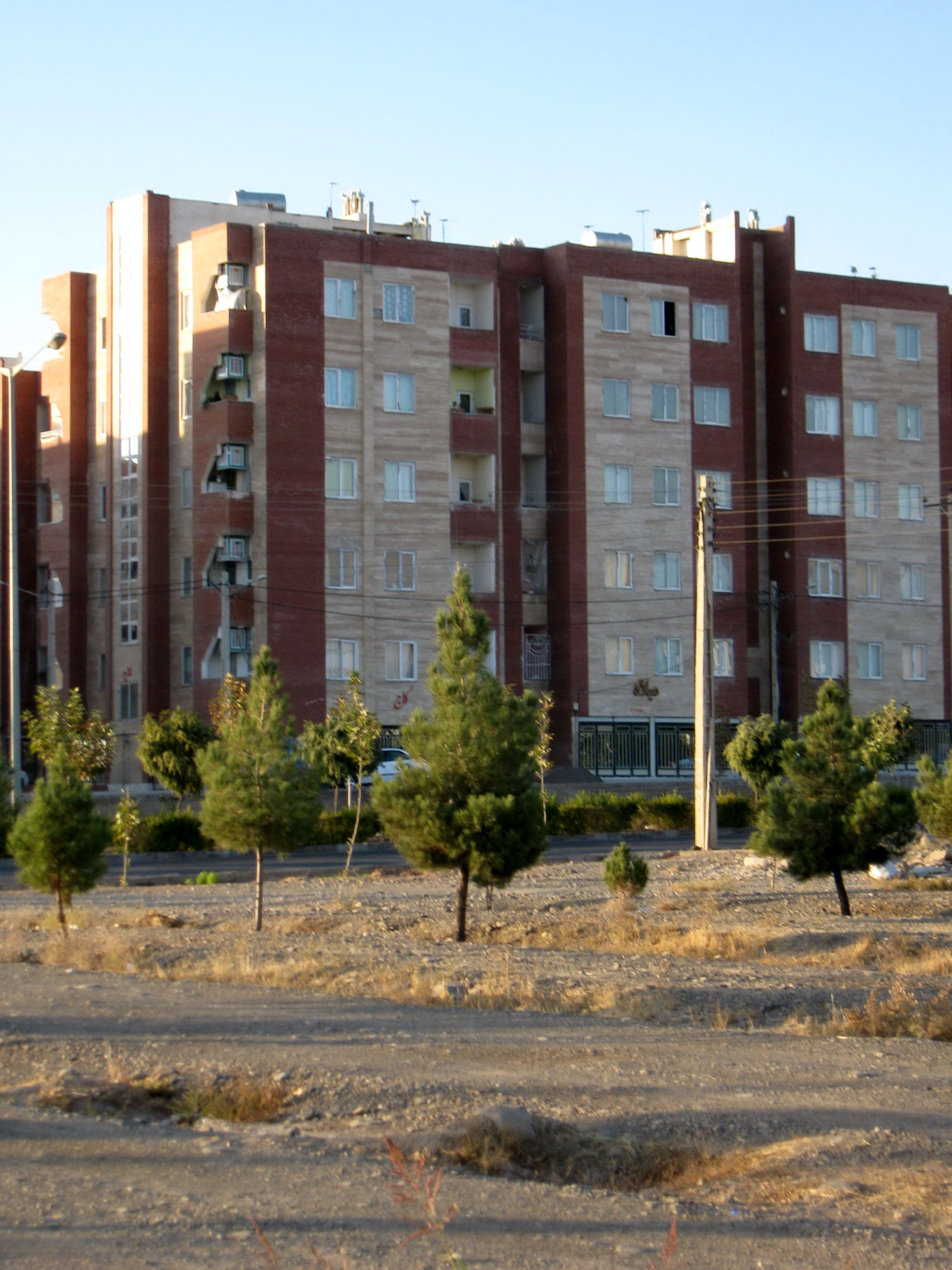 Maskan e Mehr house project - Janbazan blv - Nishapur